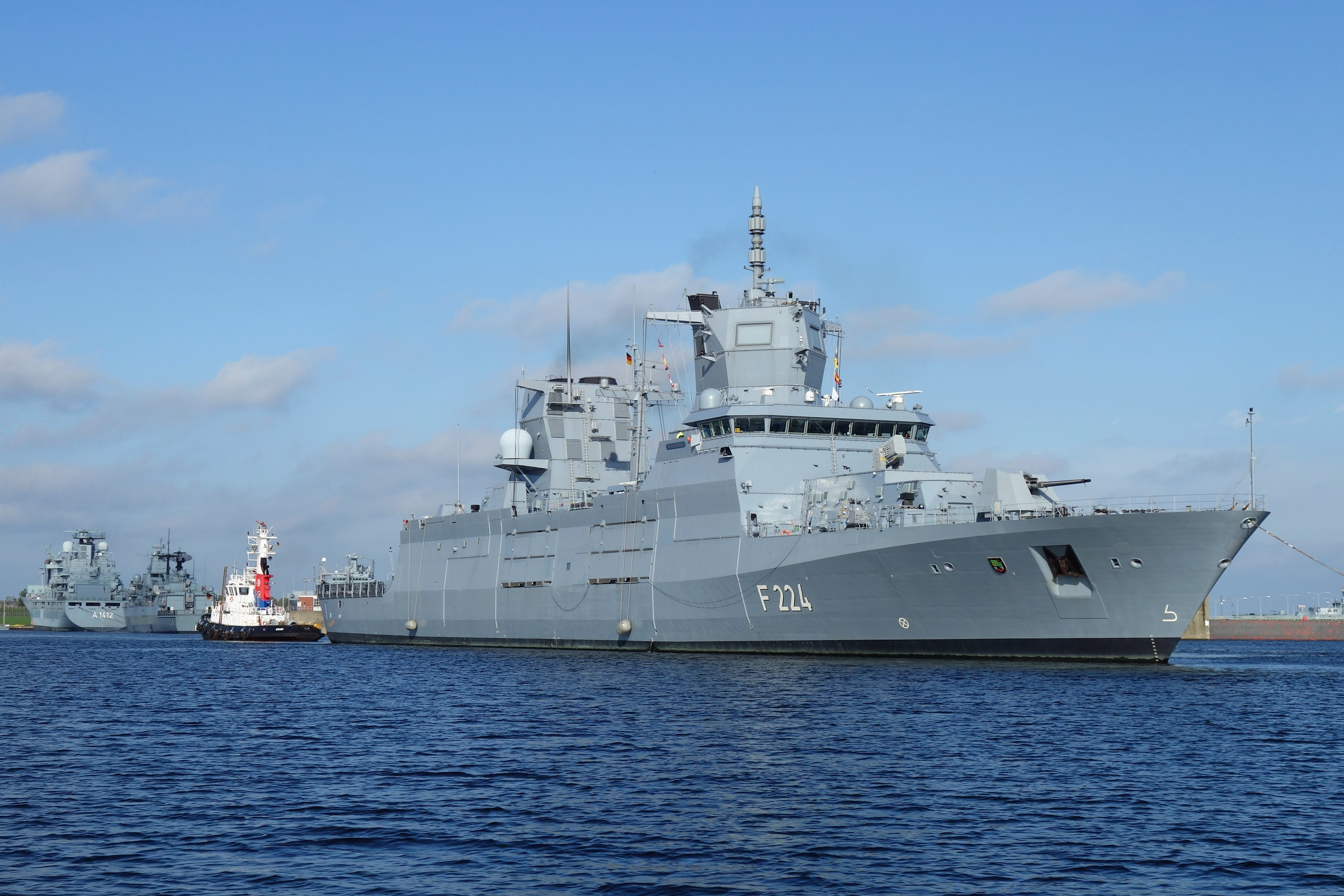 Not yet commissioned frigate Sachsen-Anhalt conducting trials in the Nordhafen of Wilhelmshaven, assisted by tugboat VB Berne